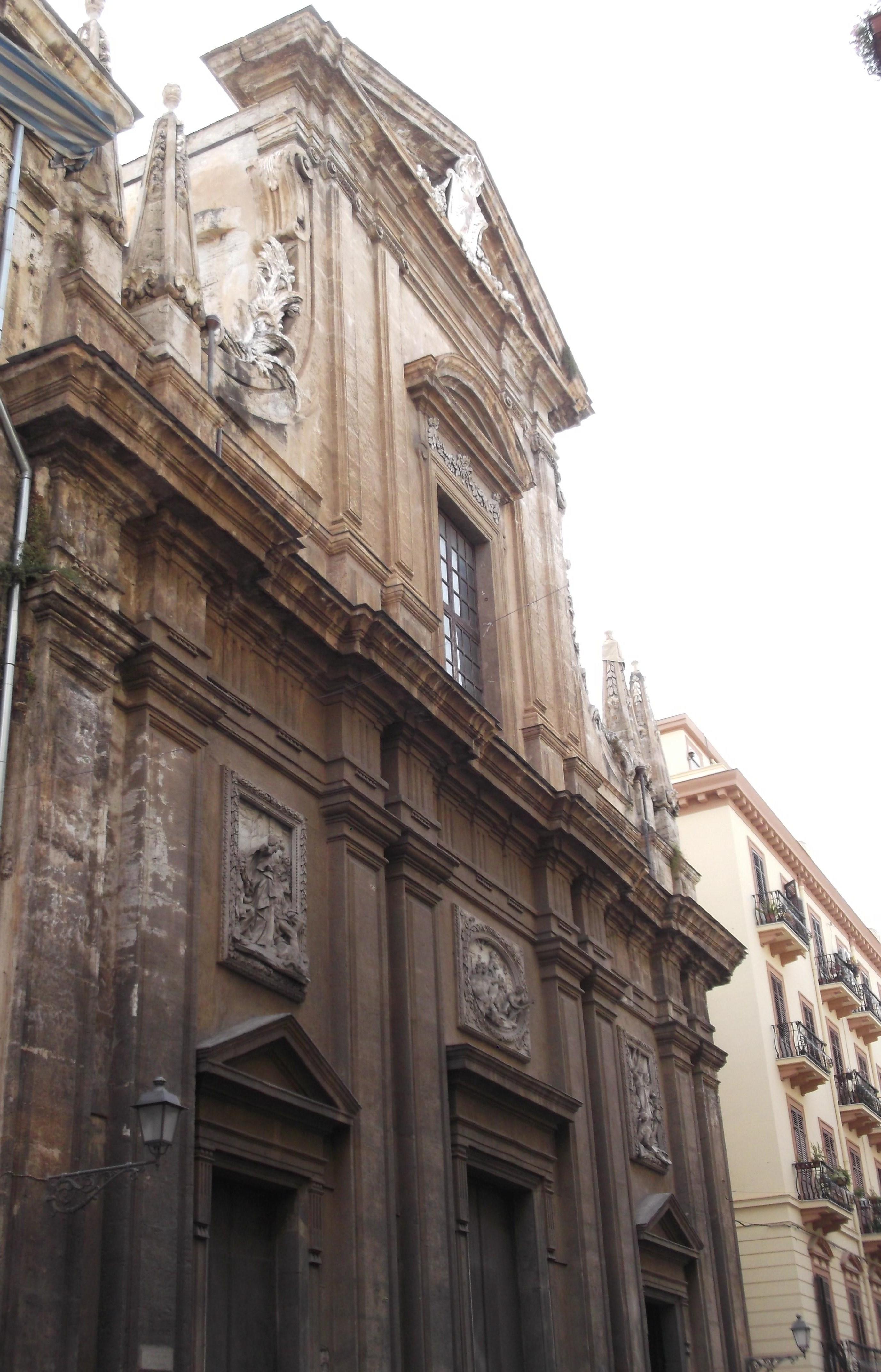 Facade